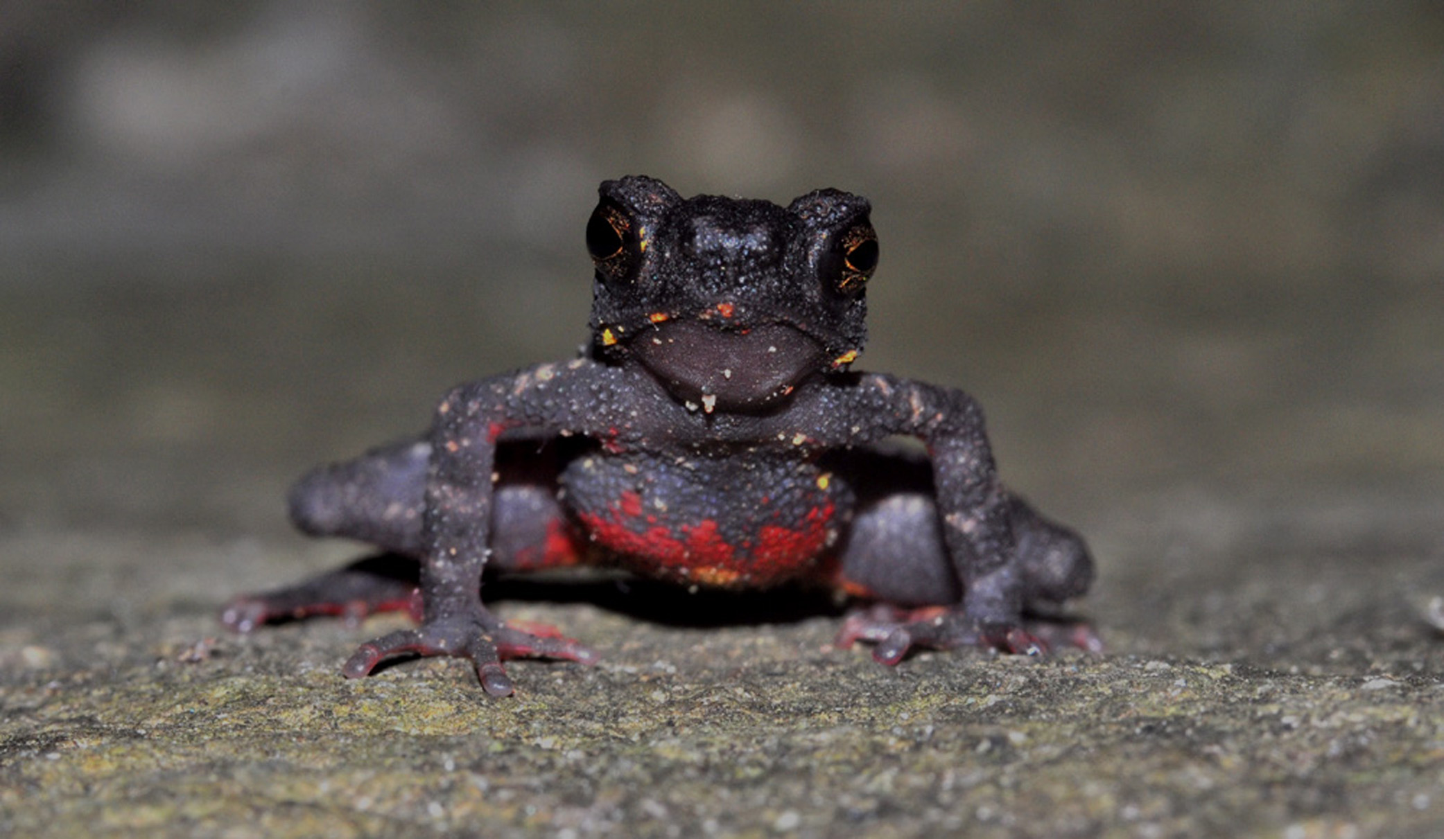 Front view and posture of torrent toad showing underbelly